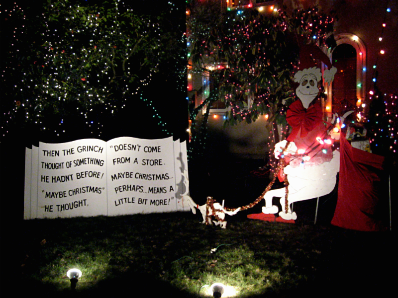 This is a display featured on Peacock Lane.